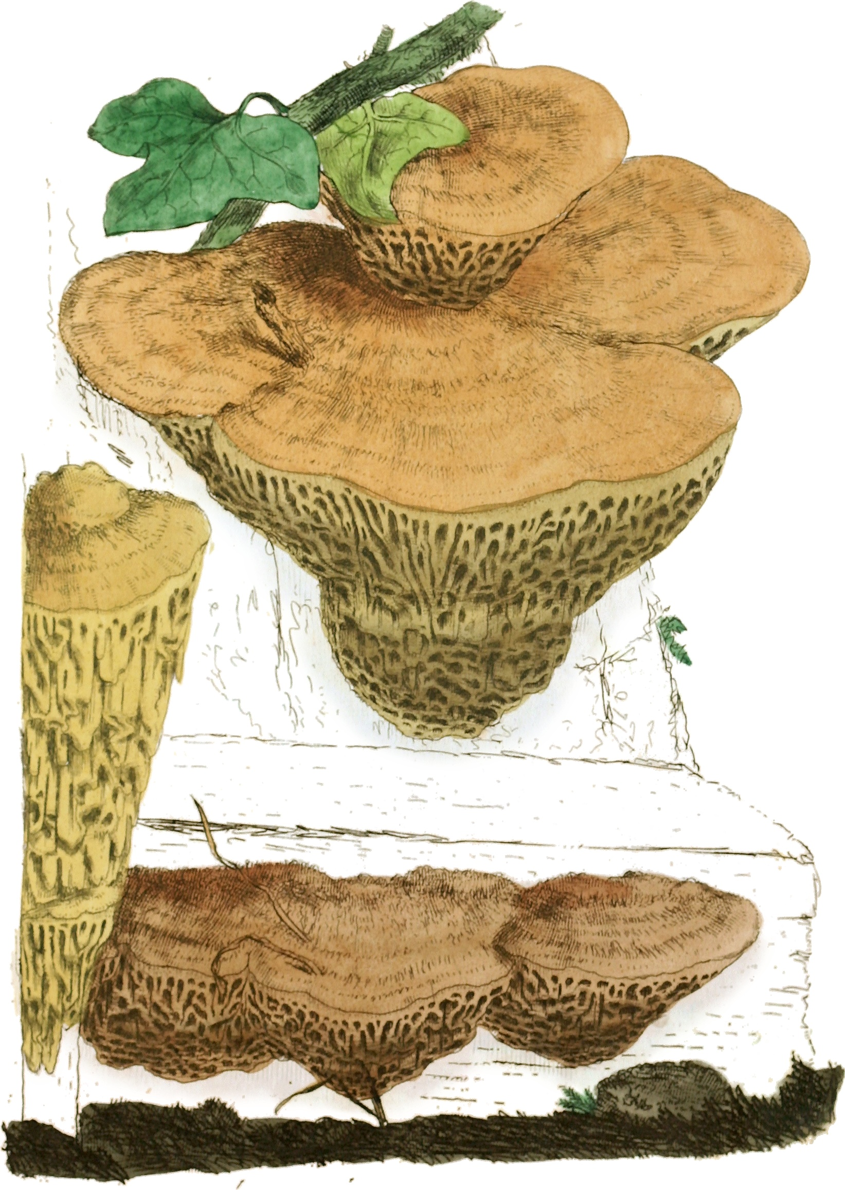 This is plate 181 from James Sowerby's Coloured Figures of English Fungi or Mushrooms. See below for more details.